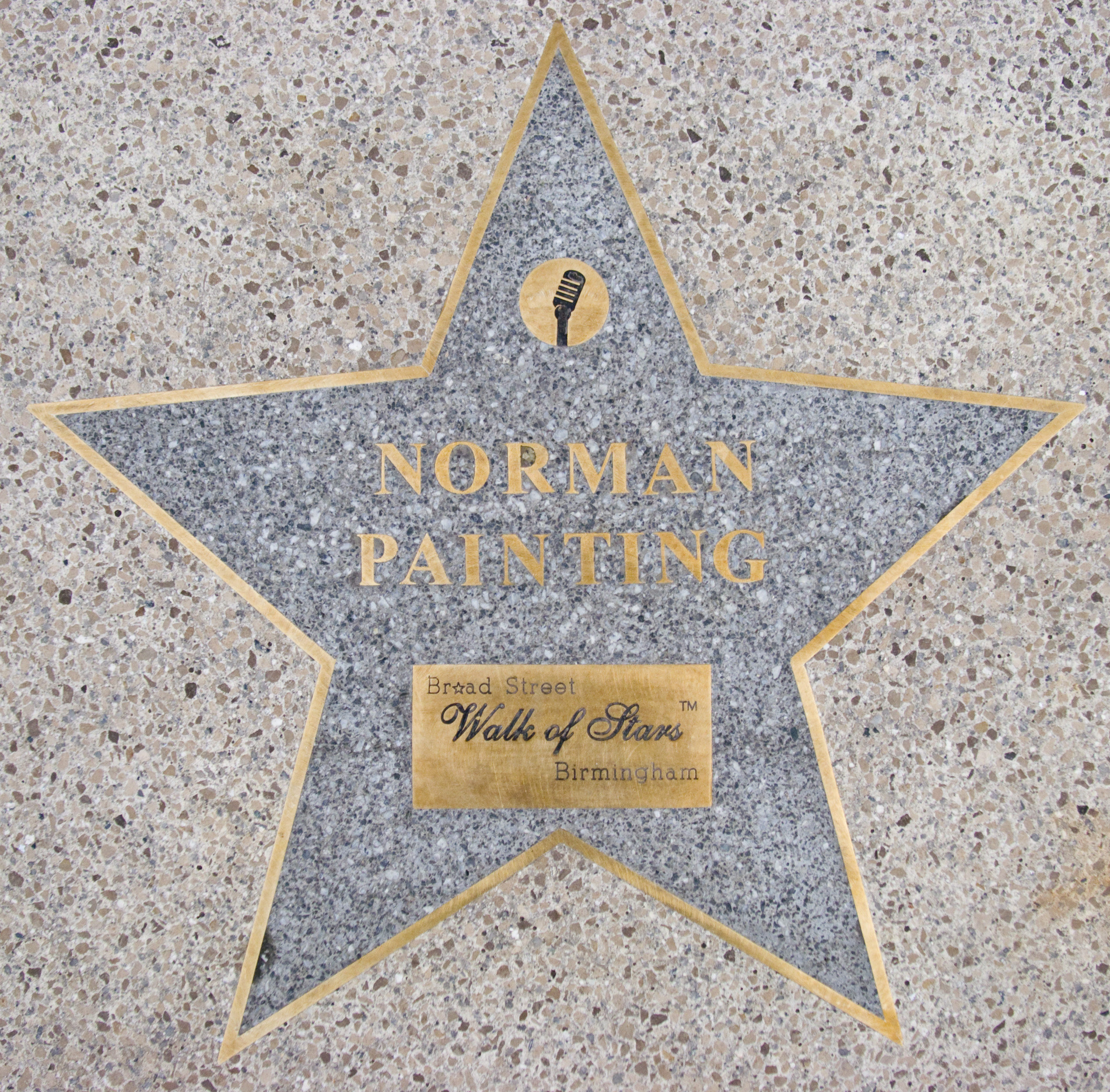 Star for Norman Painting, longest serving actor, playing Phil Archer in the BBC Radio 4 soap opera The Archers on the Walk of Stars on Broad Street, Birmingham, England. Set in the pavement in 2008.